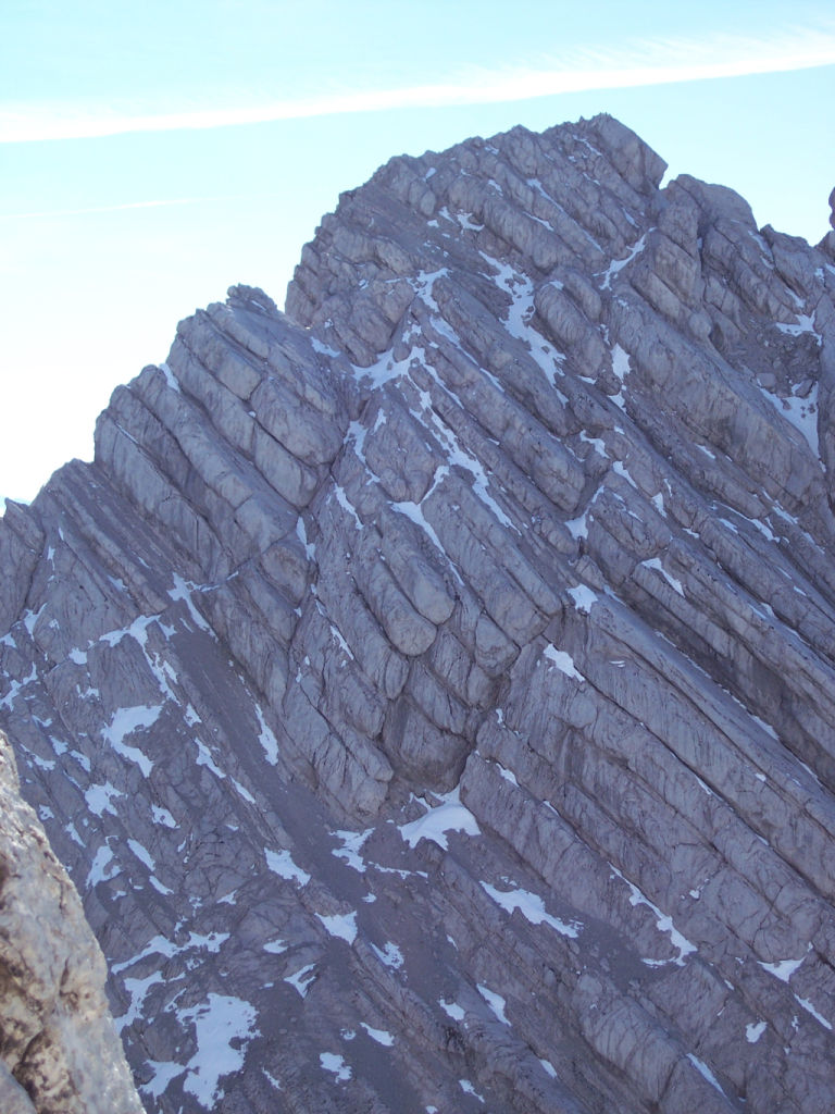 The main summit of the Ofentalhoernl (Hochkalter group, Berchtesgaden) and its north face.